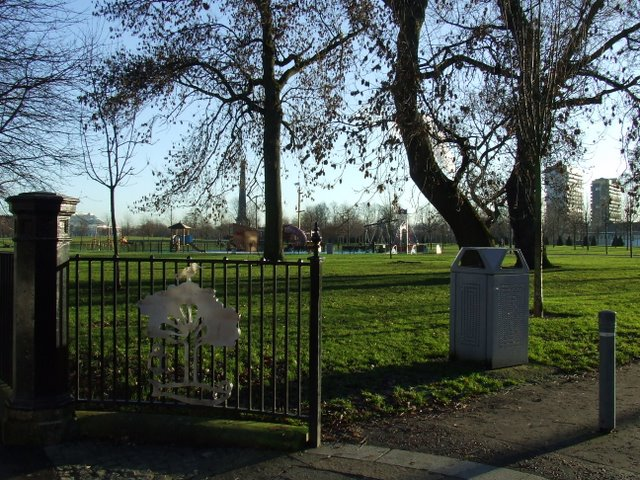 Glasgow Green The entrance to the park from Greendyke Street. Note the bell, bird fish and tree from Glasgow's Coat of Arms.